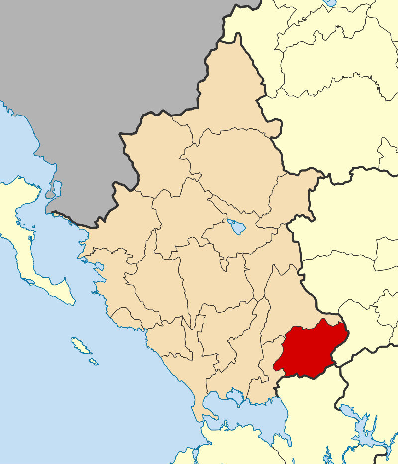 Locator map for Georgios Karaiskakis municipality in Greek region Epirus (2011)